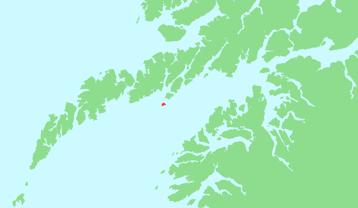 Locator map of Skrova, Nordland, Norway